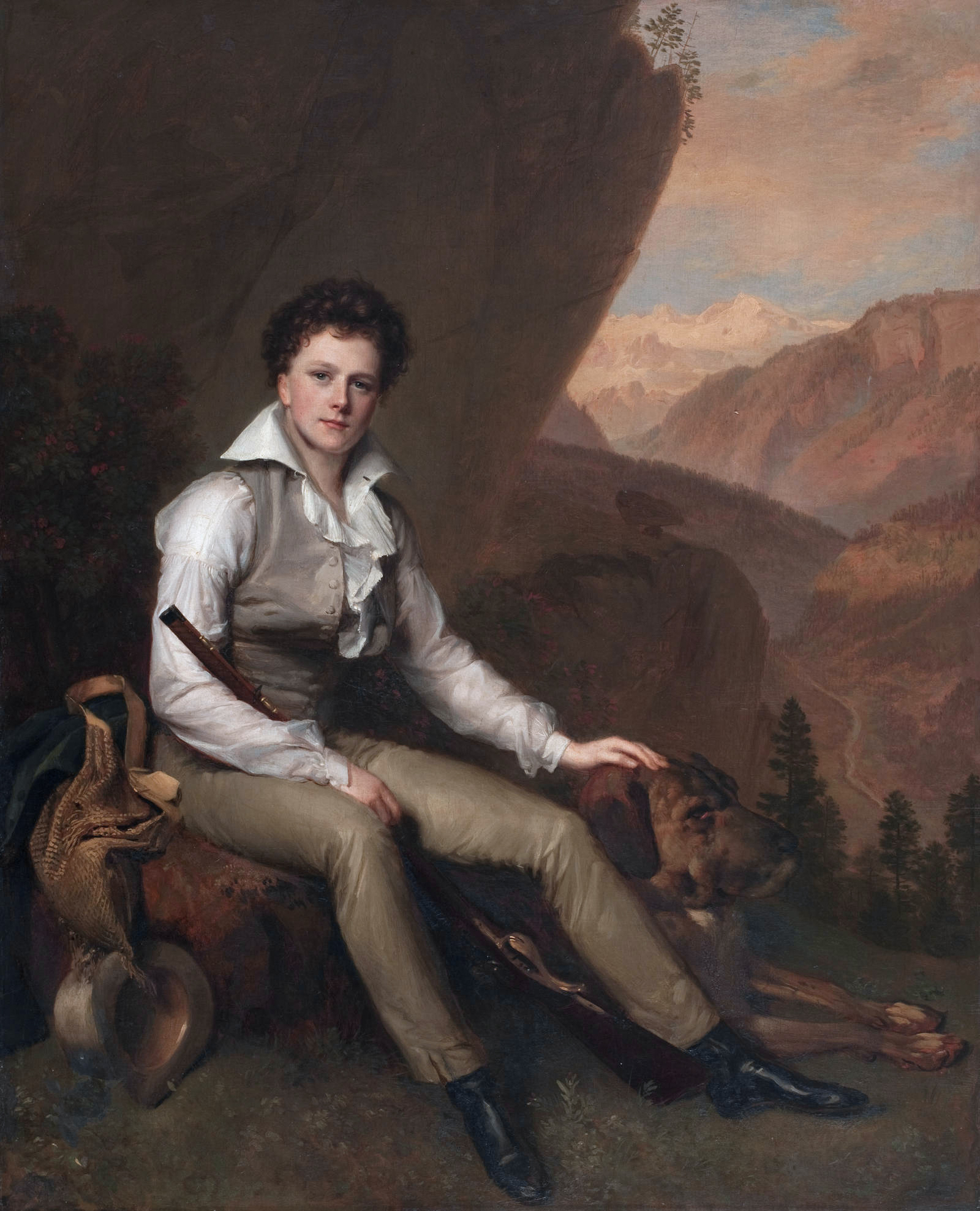 John Campbell, 5th Earl and 2nd Marquess of Breadalbane oil on canvas 75 x 61 cm.